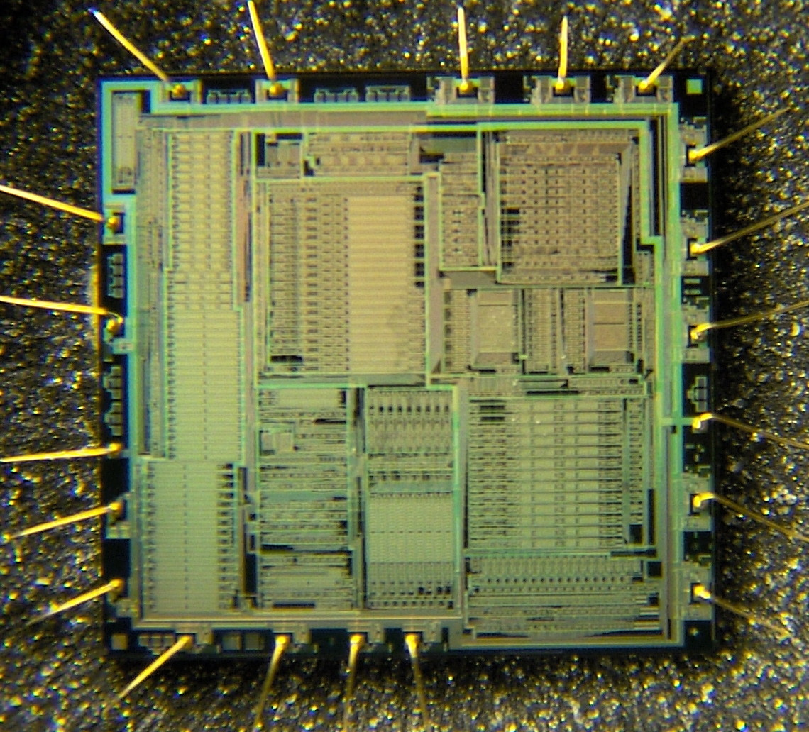 Yamaha YM3812 audio IC decapsulated. Markings on chip: YAMAHA Ⓜ 1985